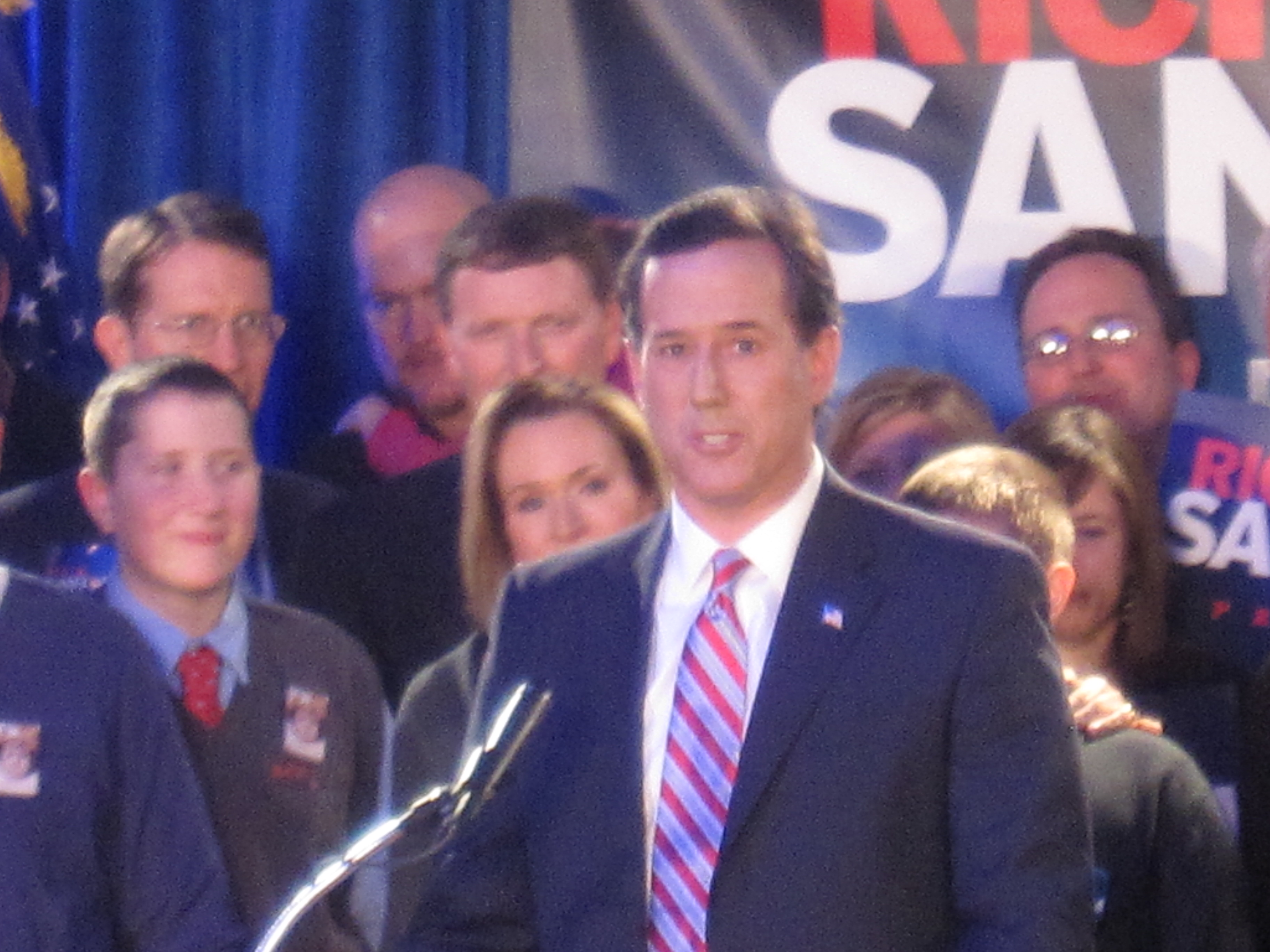 Santorum caucus party 014